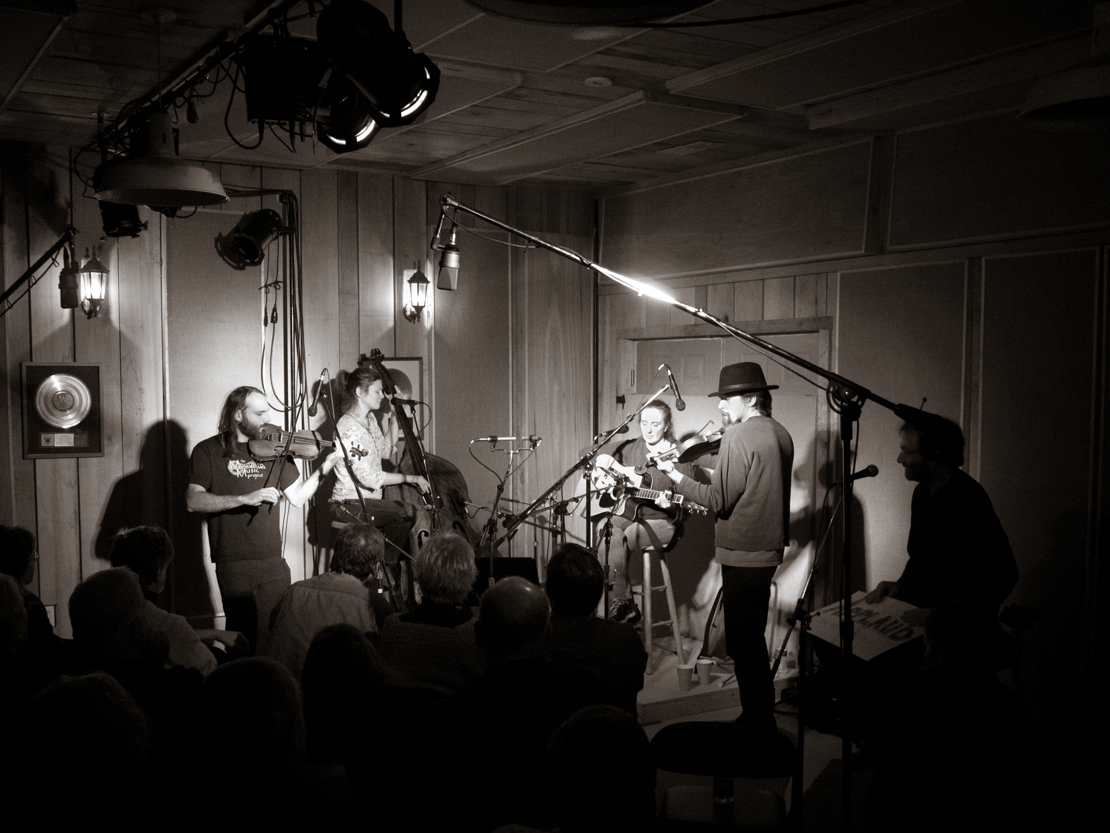 Danny Knicely and Dave Van Deventer record With Furnace Mountain Band in Loudoun County, Virginia on Feb 25, 2012.